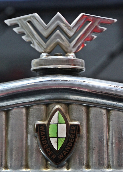 this image shows the logo of Wanderer, a german manufacturer of bicycles, motorcycles, automobiles, vans and other machinery. Established as Winklhofer & Jaenicke in 1896, the company used the Wanderer brand name from 1911, making civilian automobiles until 1941 and military vehicles until 1945.